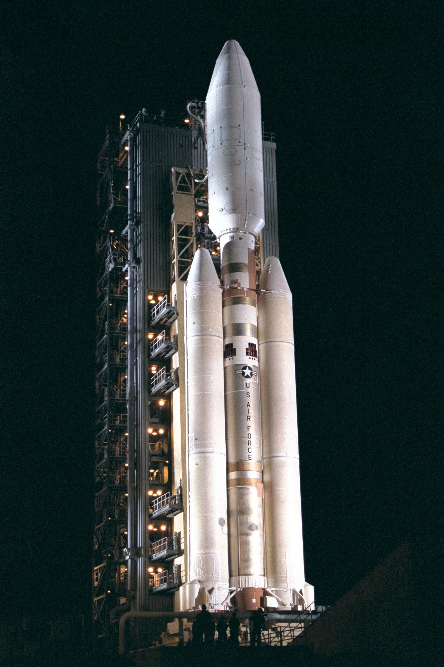 Launch Complex 40: The second Titan IVB/Centaur (Model 401), with Cassini/Huygens on board. At Launch Complex 40 on Cape Canaveral Air Station, the Mobile Service Tower has been retracted away from the Titan IVB/Centaur carrying the Cassini spacecraft, marking a major milestone in the launch countdown sequence. Retraction of the structure began about an hour later than scheduled due to minor problems with ground support equipment. The launch vehicle, Cassini spacecraft and attached Centaur stage encased in a payload fairing, altogether stand about 183 feet tall; mounted at the base of the launch vehicle are two upgraded solid rocket motors. Liftoff of Cassini on the journey to Saturn and its moon Titan is slated to occur during a window opening at 4:55 a.m. EDT, Oct. 13, and extending through 7:15 a.m